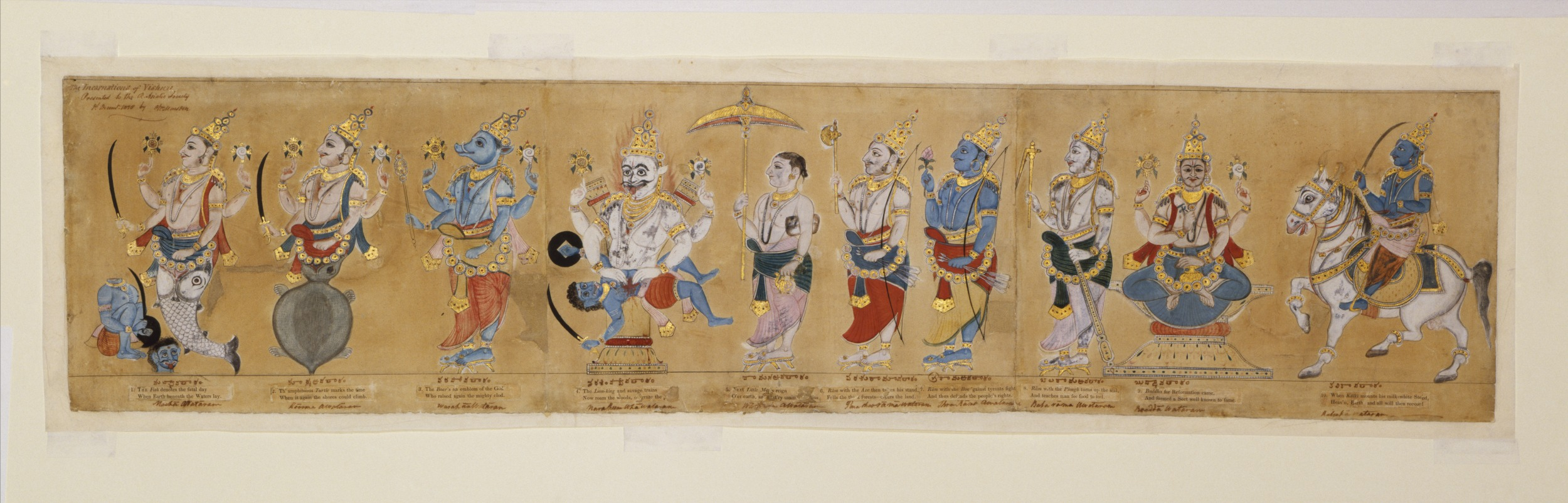 his is a detail from a horizontal scroll-painting depicting Hindu deities. It is a Company painting (the name given to paintings made by Indian artists for the British in India). William Marsden, who served in Sumatra as an East India Company writer between 1771 and 1779, acquired it. In 1785 he established an East India Agency business in London and later became First Secretary to the Admiralty. He devoted himself to scholarly pursuits relating to Asia, and in 1783 he published a 'History of Sumatra'. He presented this scroll to the Royal Asiatic Society in 1828. In 1924 the Society gave it to the V&A.